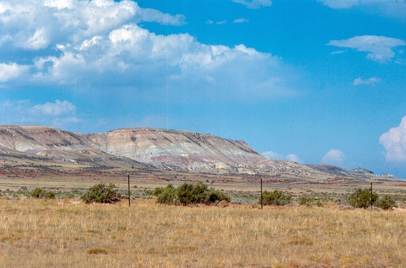 Como Bluff, Wyoming, site of numerous important dinosaur discoveries in the late 1800s.